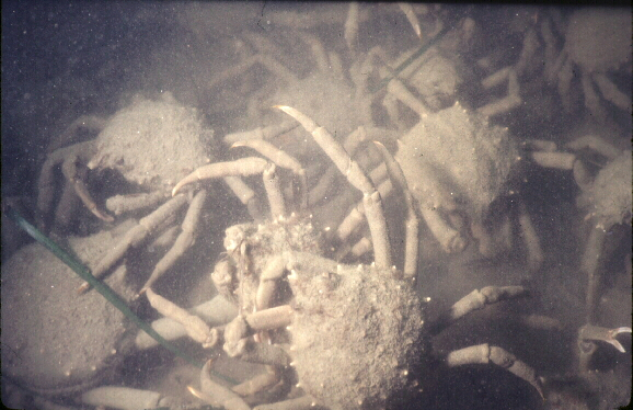 Portly spider crabs return each year to the same muddy area to mate.